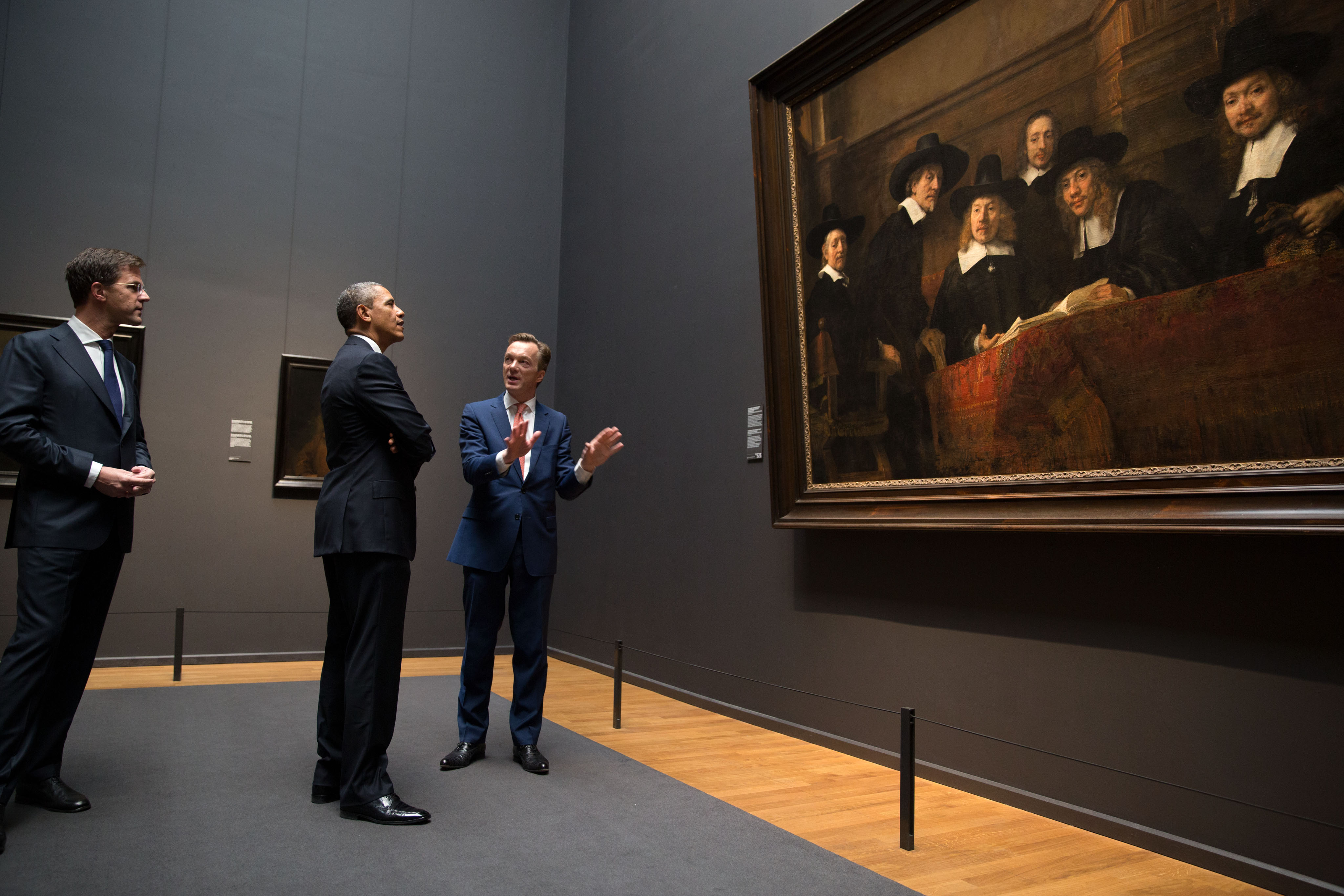 President Barack Obama looks at Rembrandt's "The Syndics" with Prime Minister Mark Rutte, left, and Museum Director Wim Pijbes during a tour of the Gallery of Honor at the Rijksmuseum in Amsterdam, the Netherlands.